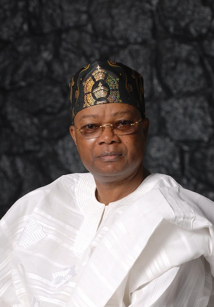 A portrait of Prince Julius Adelusi-Adeluyi